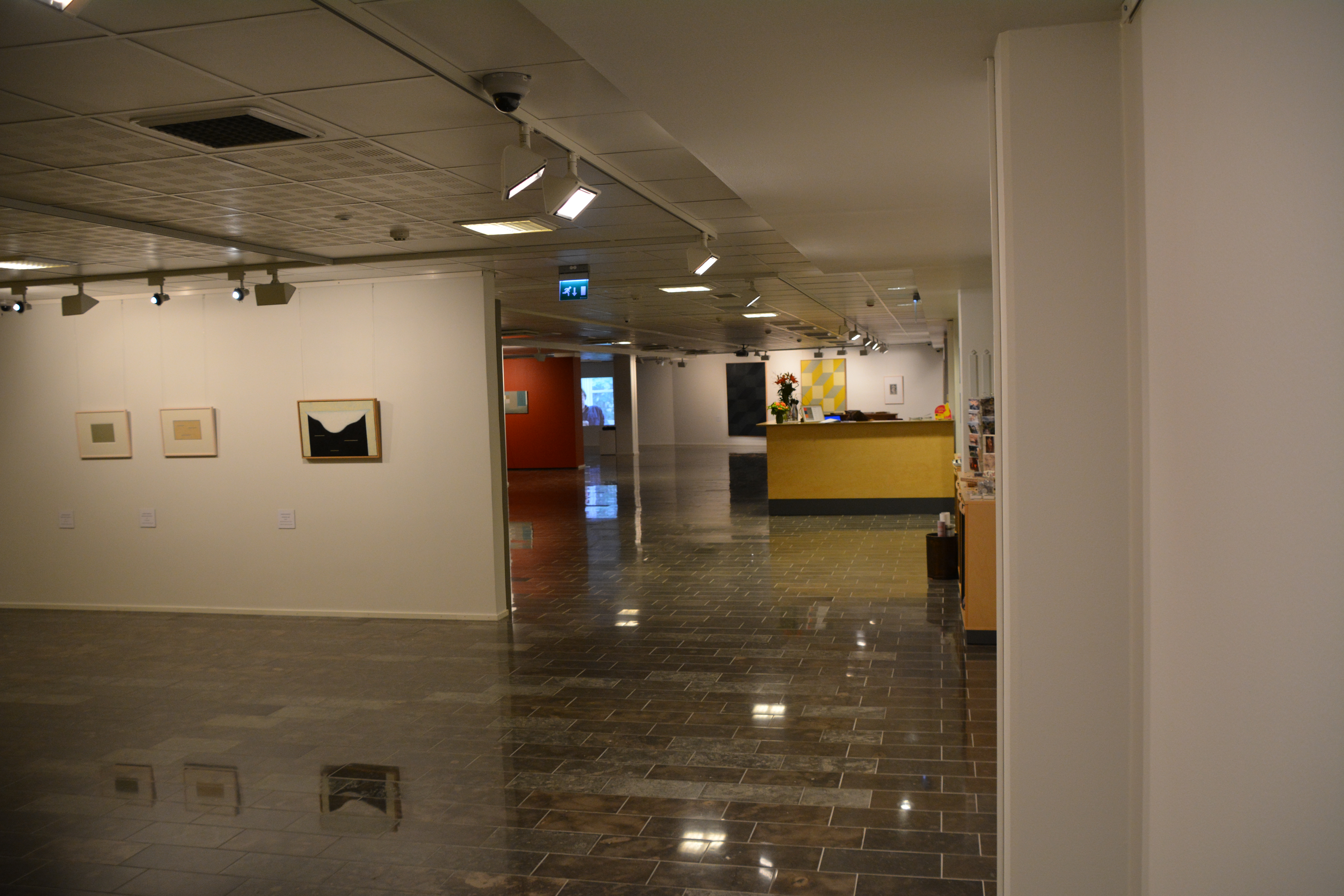 Järvenpää Art Museum